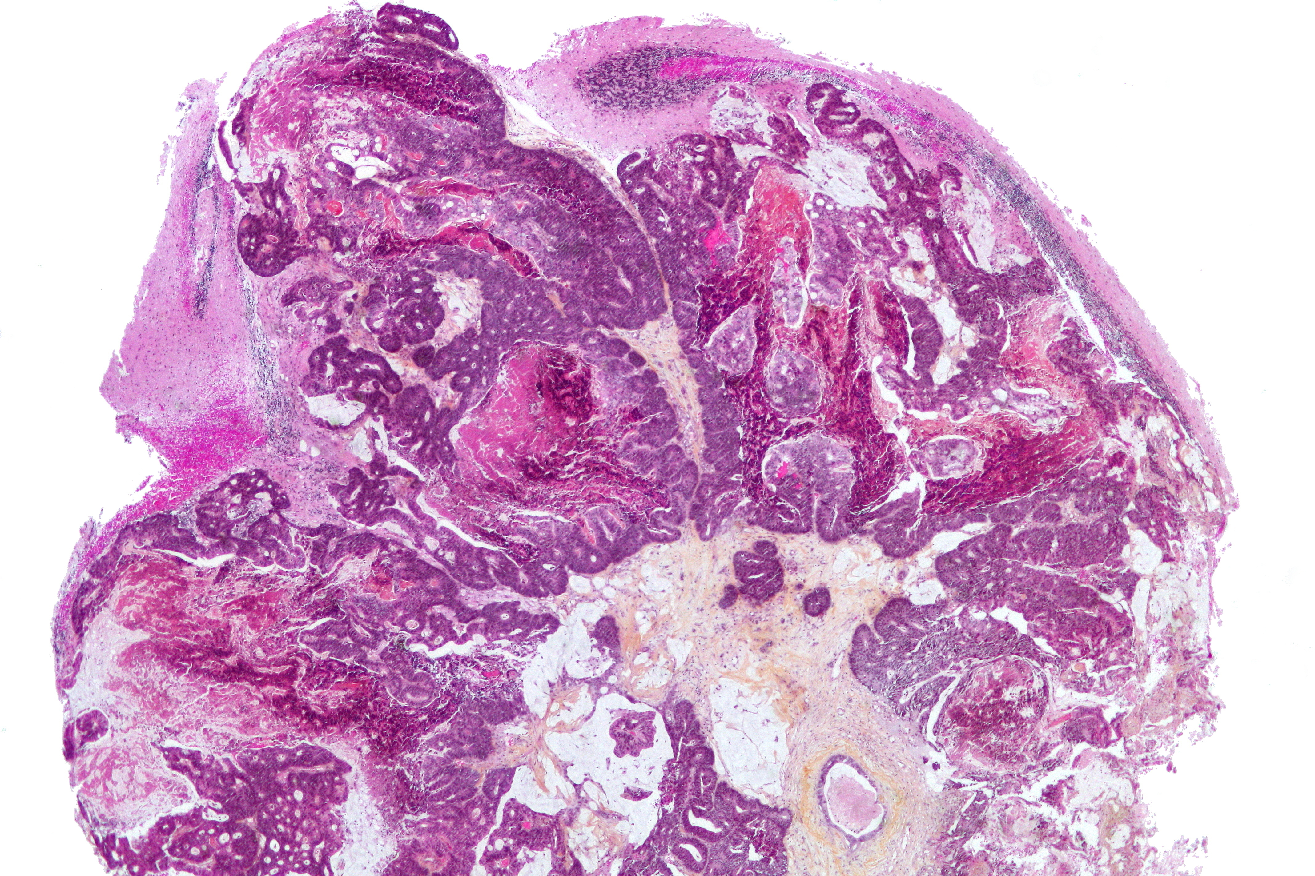 Very low magnification micrograph showing metastatic adenocarcinoma that was shown to be a colorectal primary, i.e. colorectal carcinoma, by immunostains. HPS stain. The cerebellum seen on the image has Bergmann gliosis and Purkinje cell loss. Related images Very low mag. Intermed. mag. High mag.